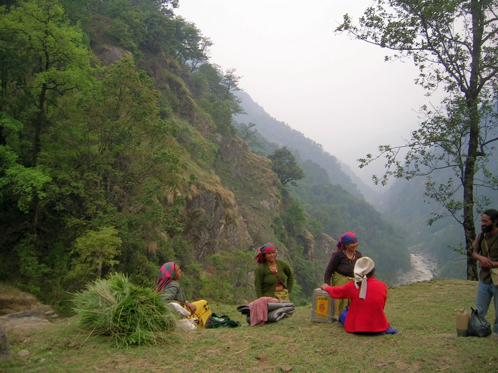 Women carrying supplies into their village, Pithoragarh, Uttarakhand, India